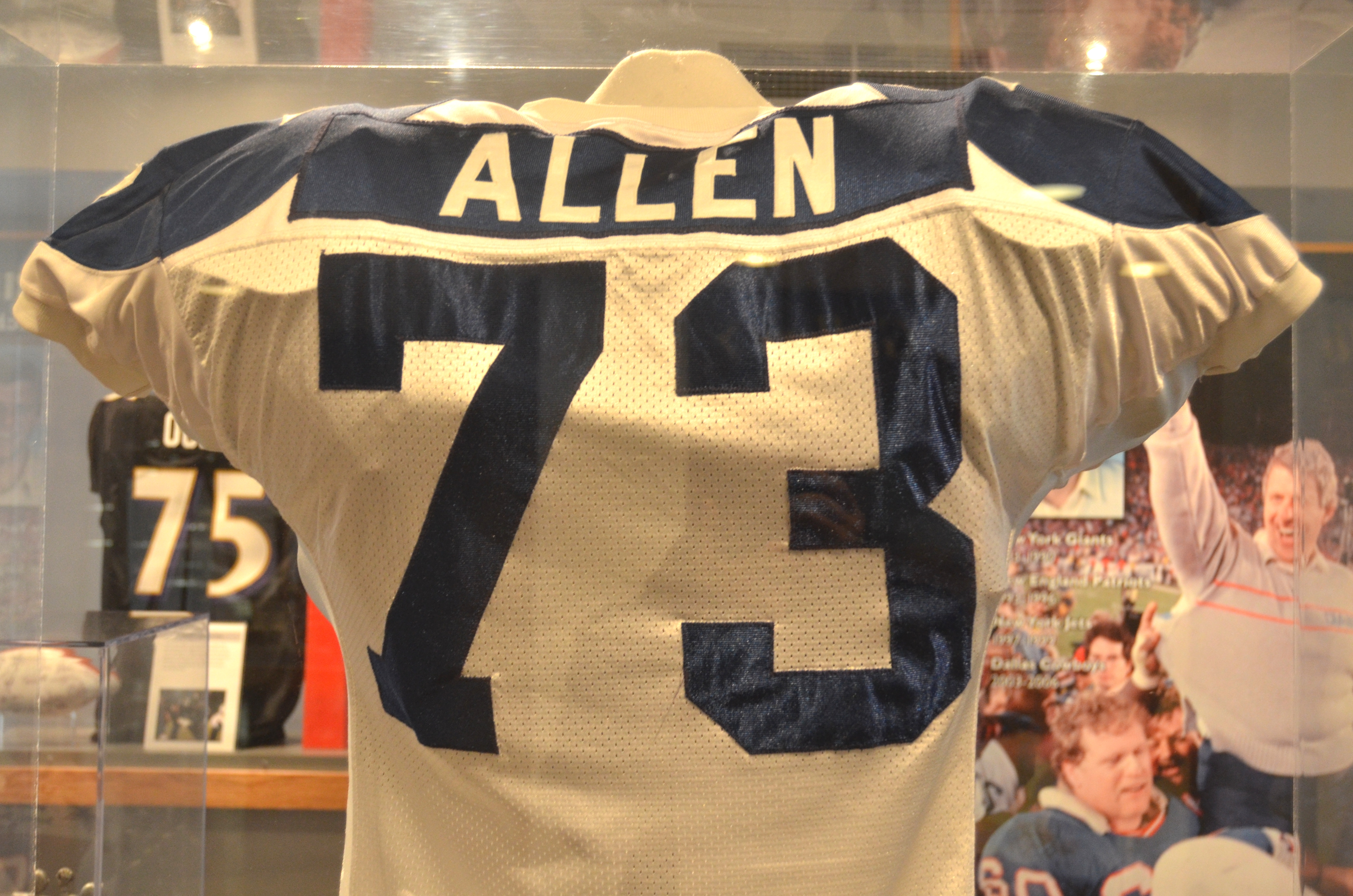 Dallas Cowboys OT Larry Allen's #73 jersey at the Pro Football Hall of Fame